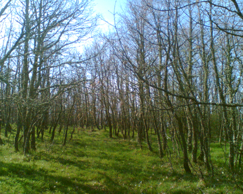 Oak grove near the village of Navamuel, region of Valderredible, autonomous community of Cantabria, Spain.